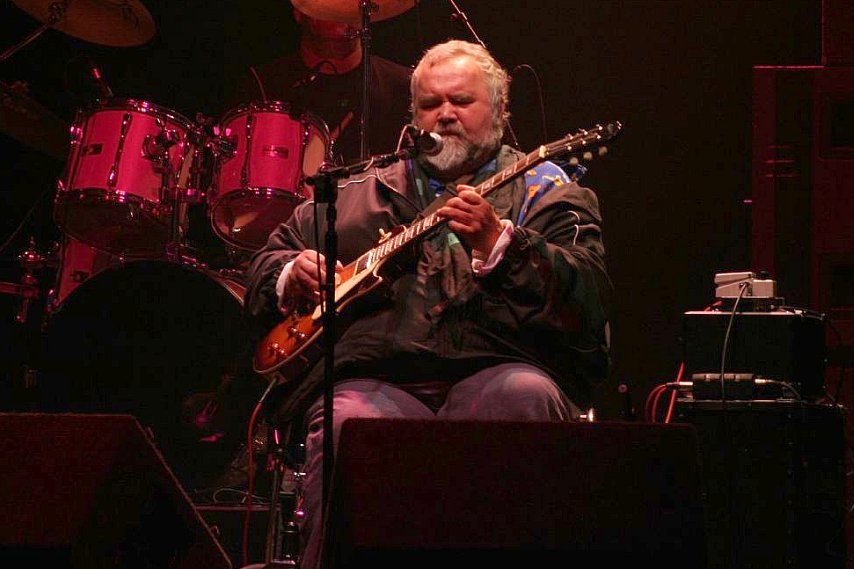 John Martyn Cropredy Festival, August 11th 2006